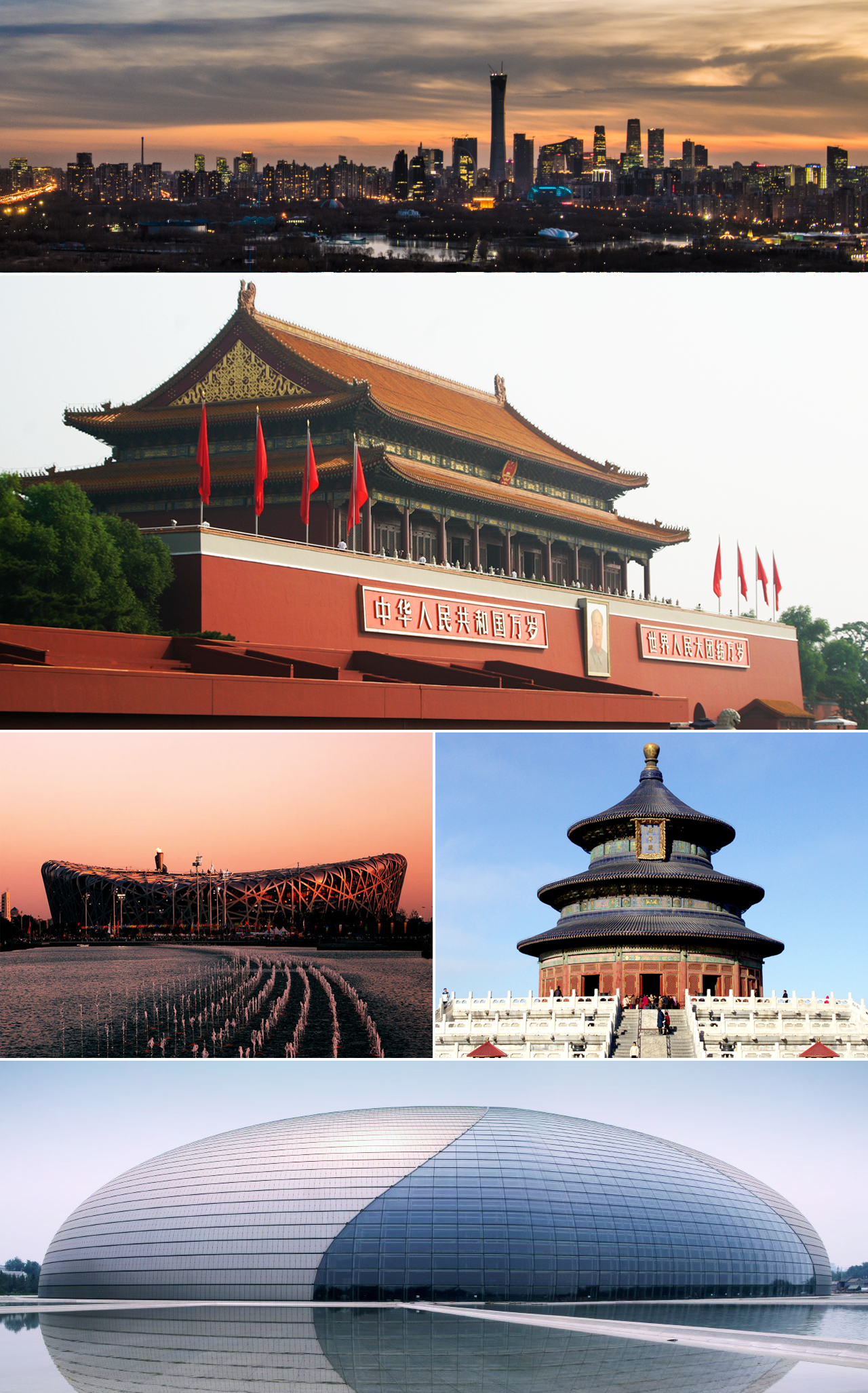 Montage of various Beijing images